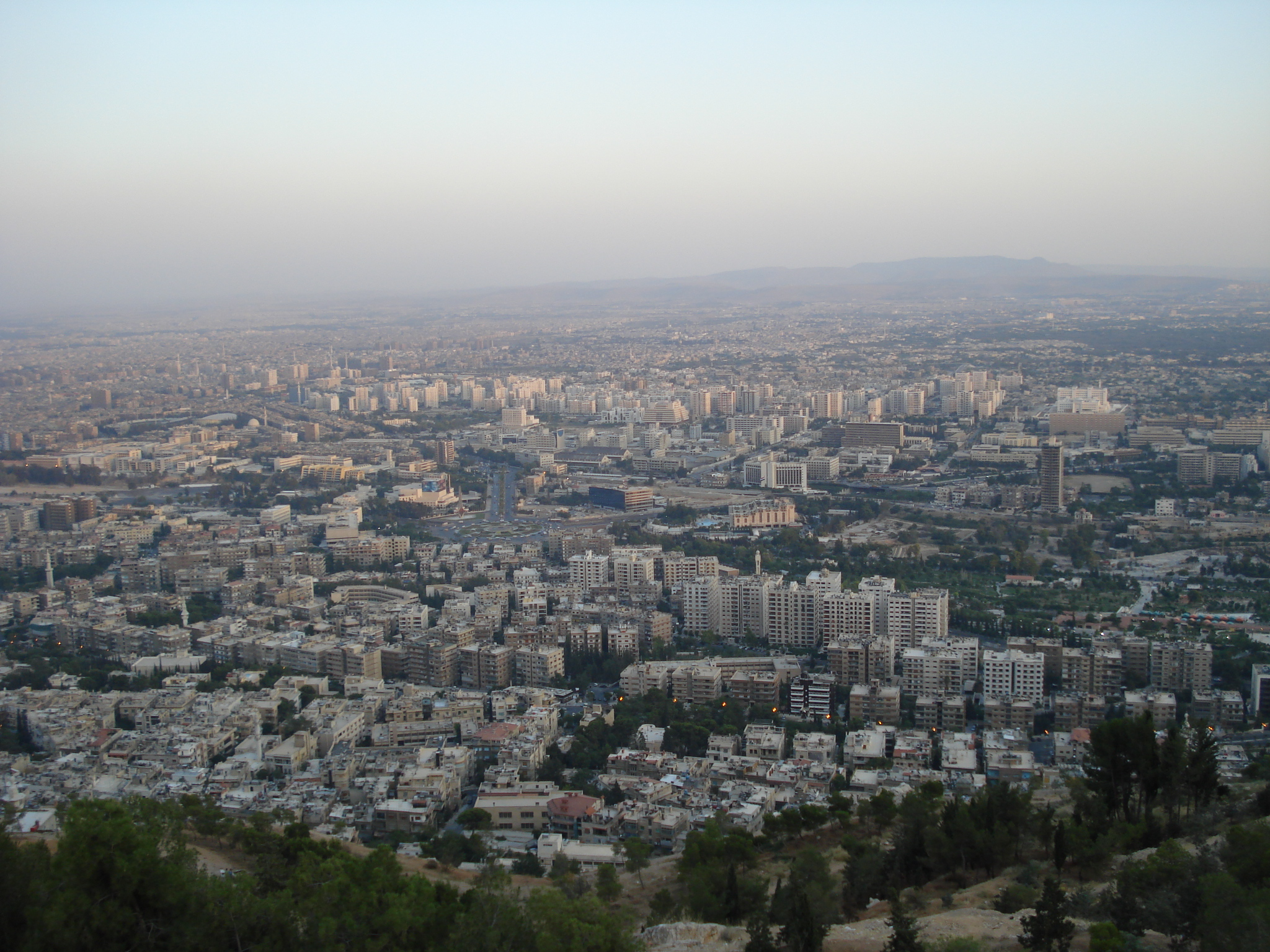 General view of the City of Damascus from Mount Qasion.